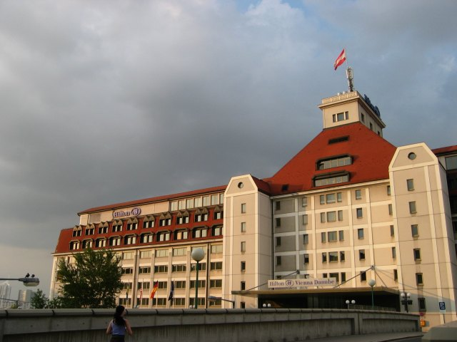 Hilton Vienna Danube Hotel in Vienna